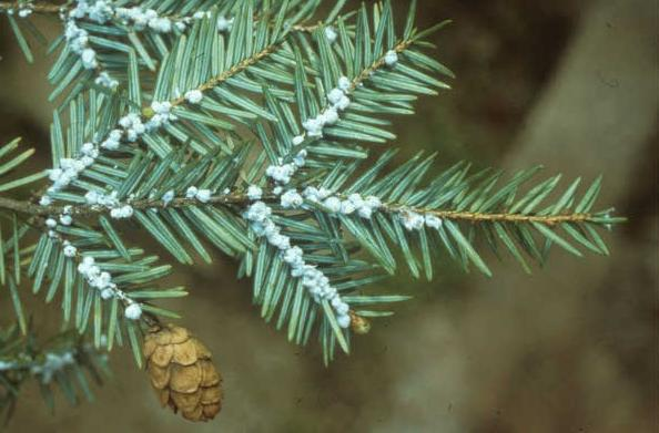 Tsuga canadensis with Woolly Adelgid infestation